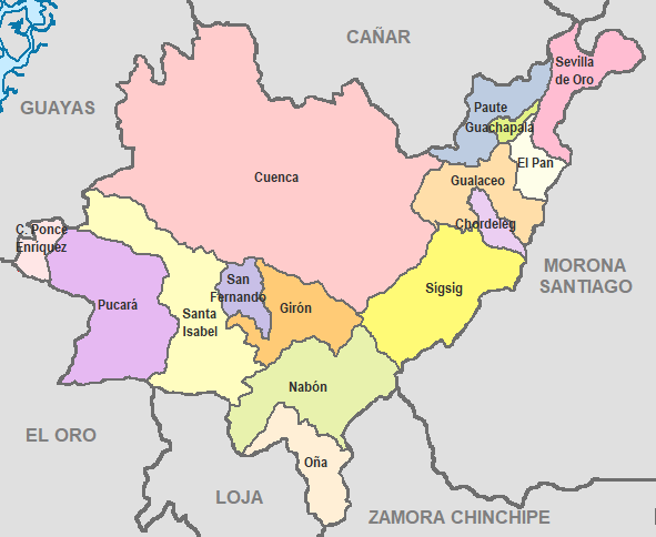 Cantones de Azuay